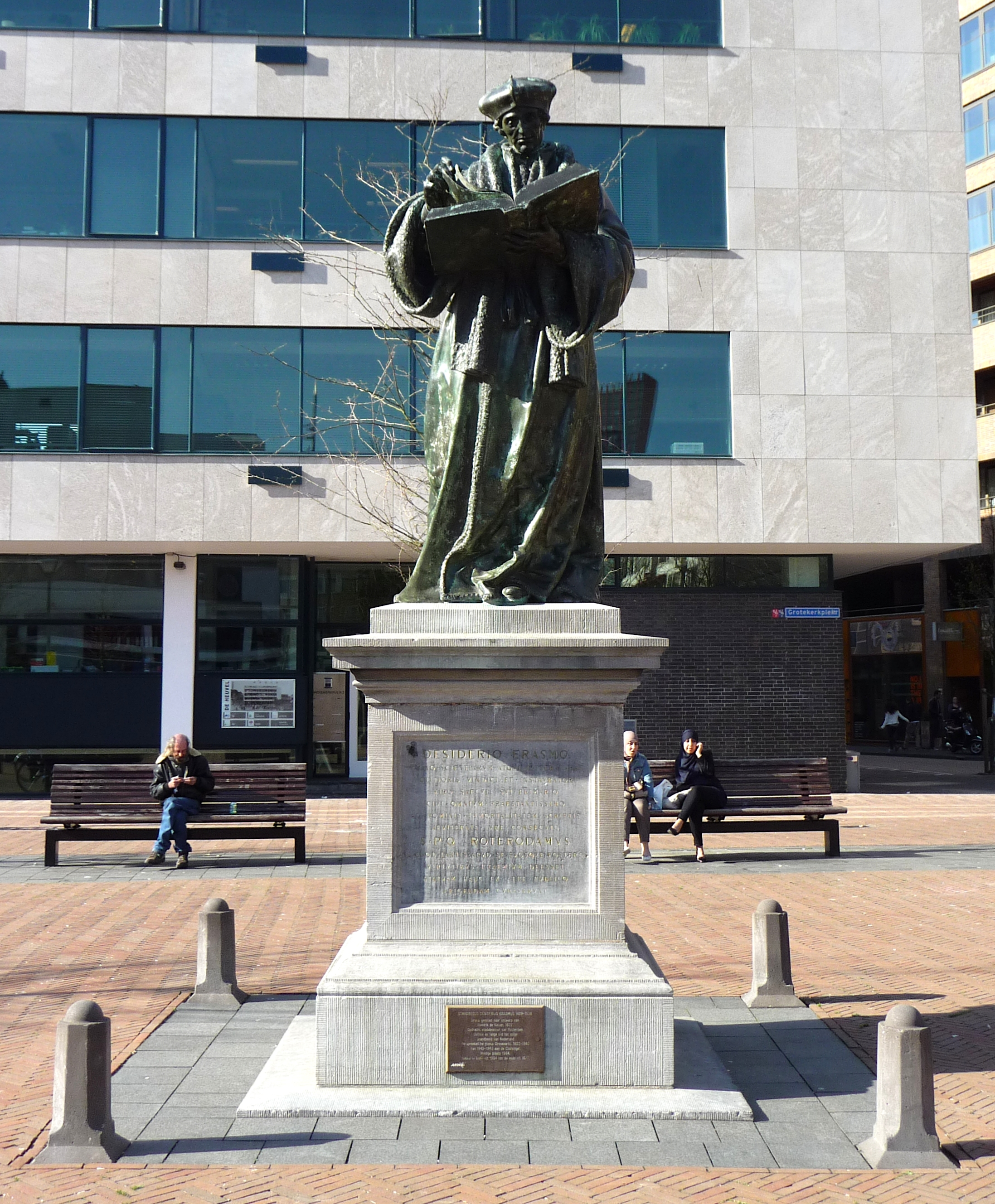 Statue of Erasmus of Rotterdam in Rotterdam (South Holland, the Netherlands).